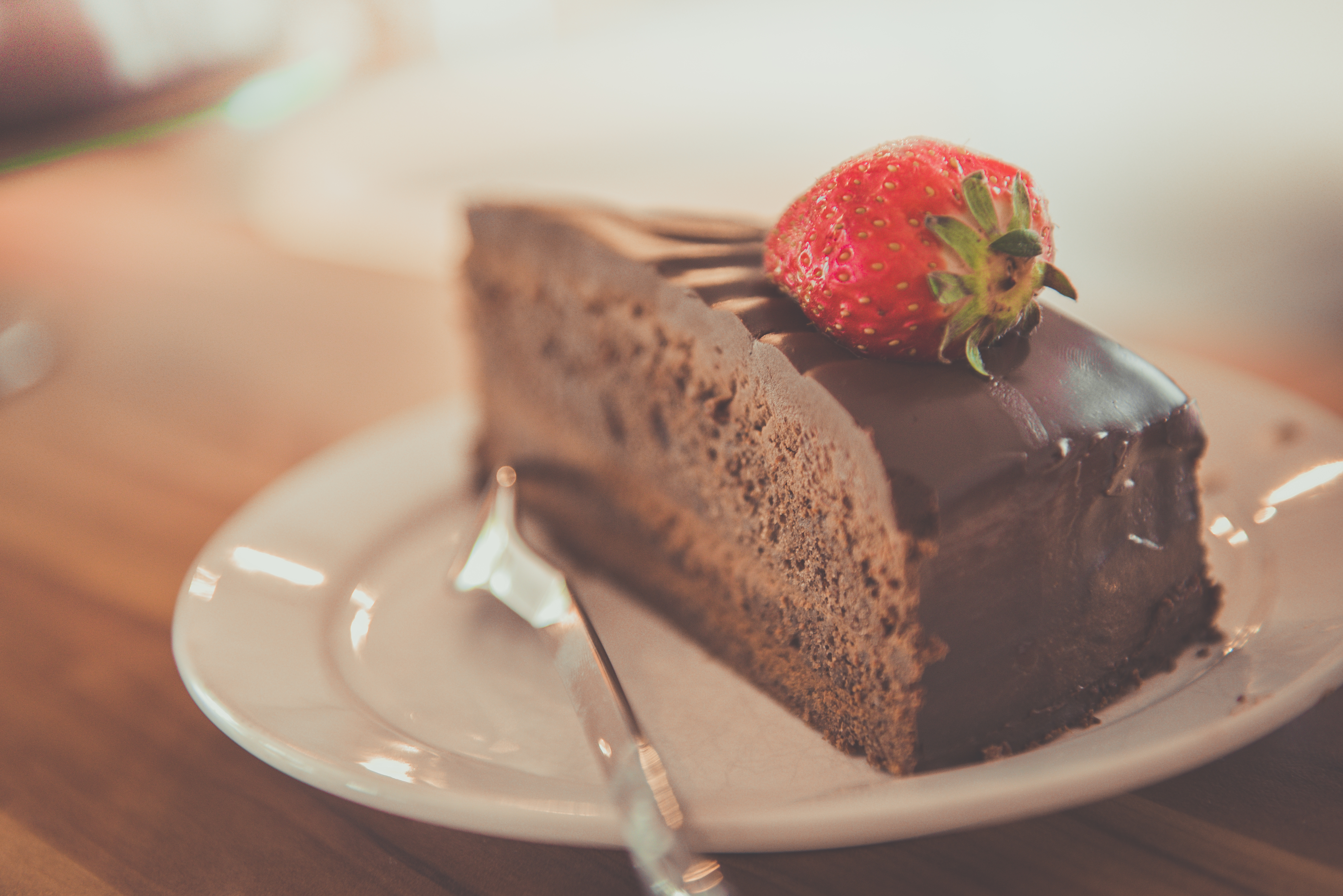 Chocolate Cake